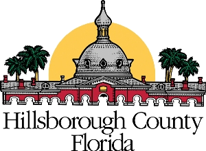 Logo of Hillsborough County, Florida